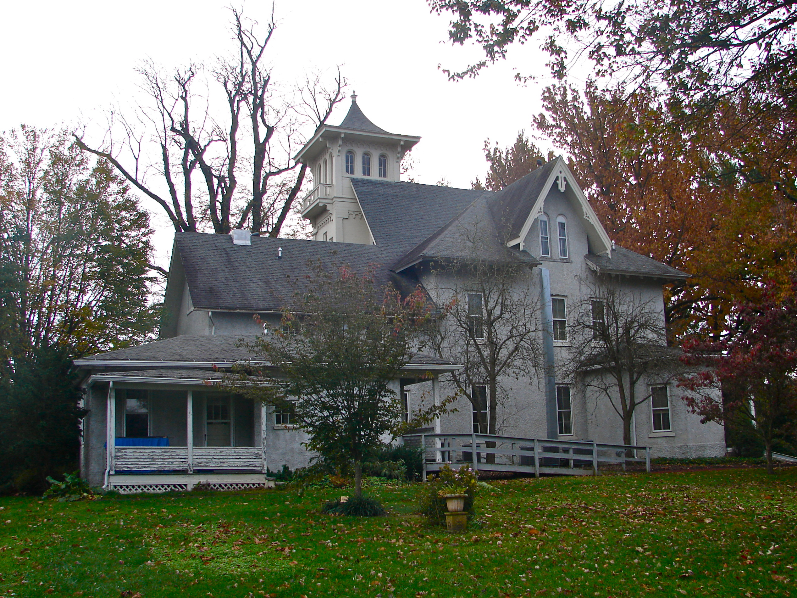 Slifer House on the NRHP since June 18, 1975. A mile or two north of Lewisburg off U.S. Route 15 on Pennsylvania Route 59024 (River Road) in Kelly Township, Union County, Pennsylvania. Now a retirement home.